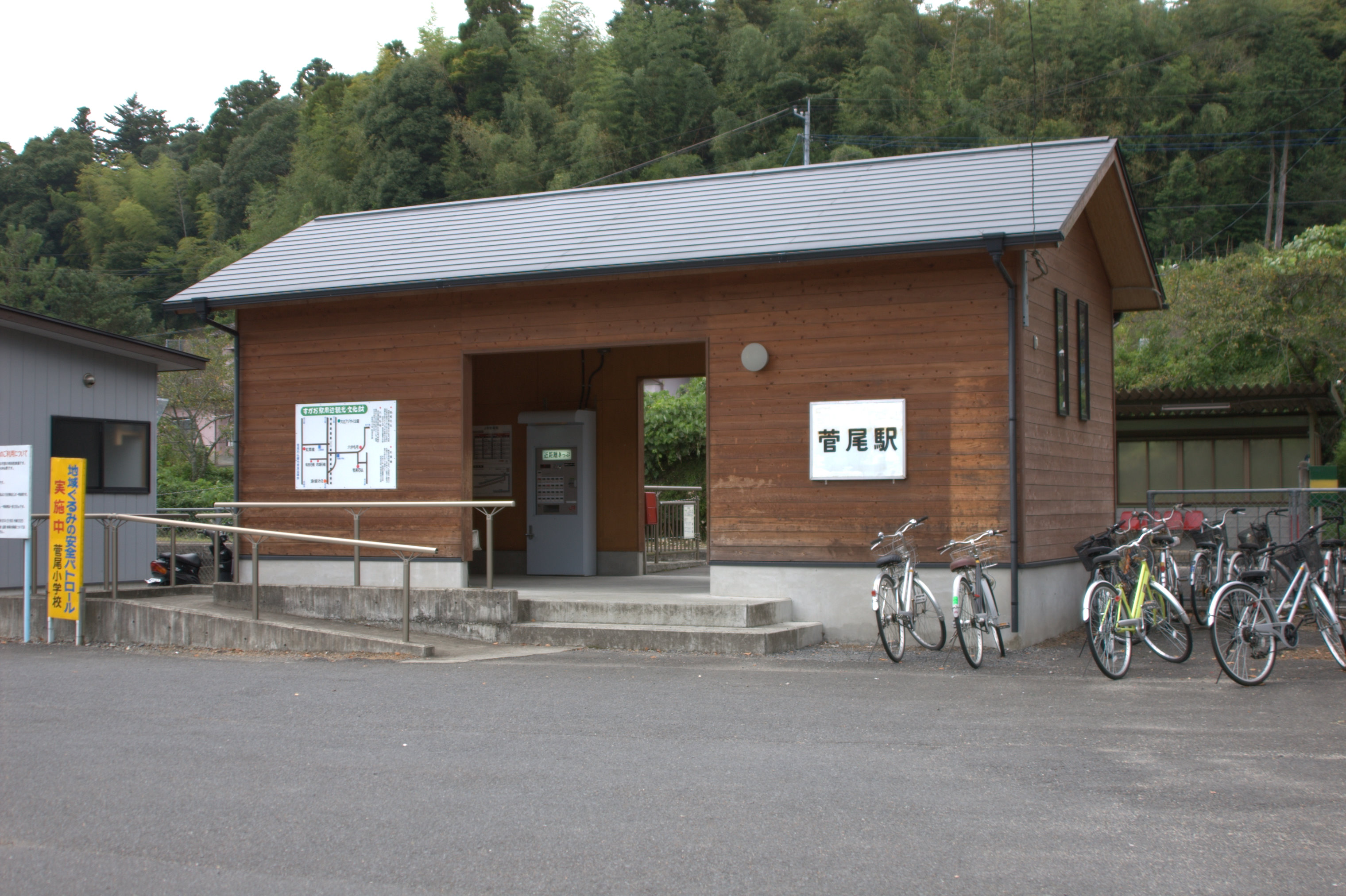 JR Kyushu Sugao Station on Hohi Main Line.